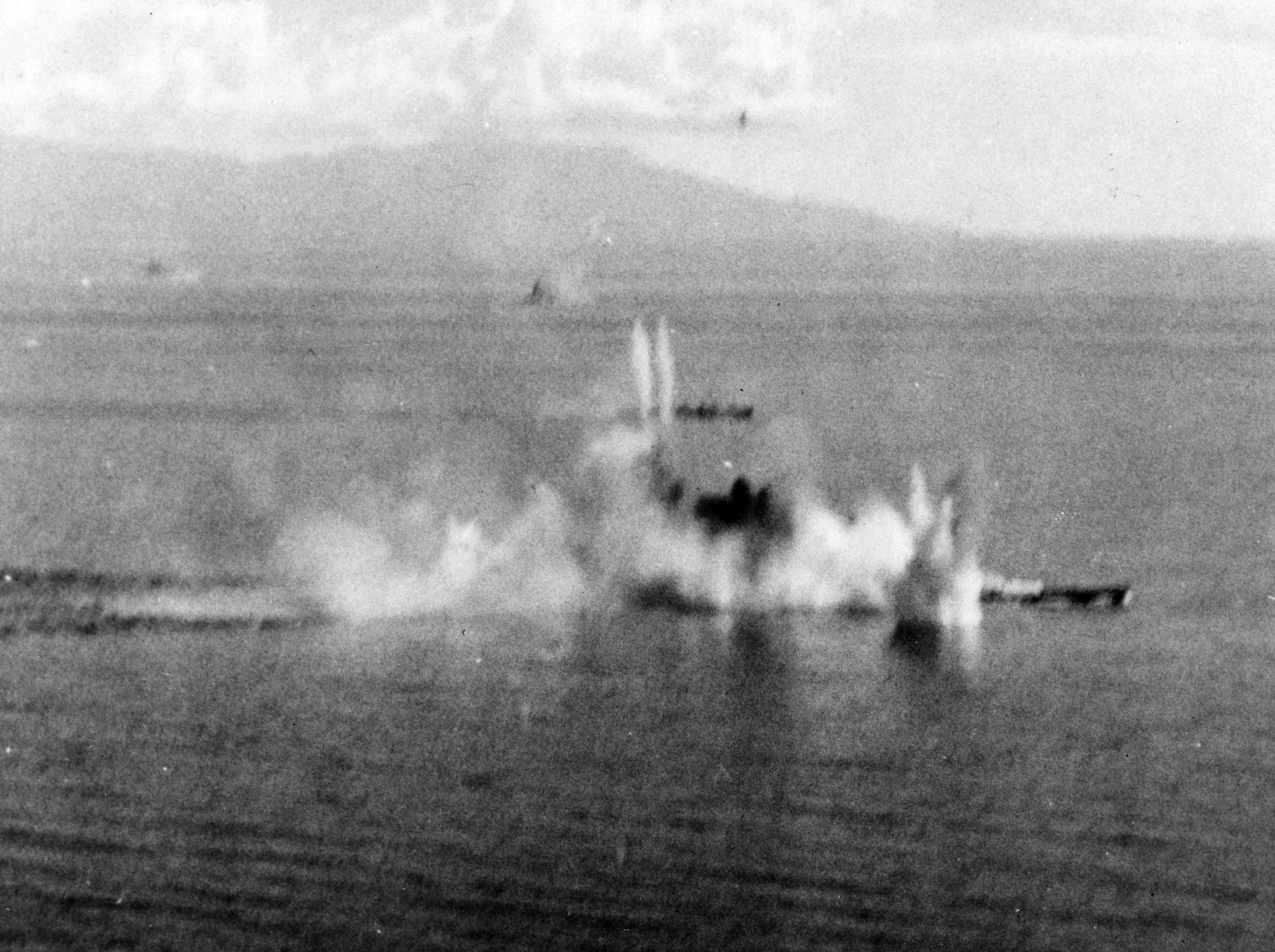 Battle of the Sibuyan Sea, 24 October 1944: The Japanese battleship Musashi under intense attack by aircraft of the U.S. Navy Task Force 38 in the Sibuyan Sea. A destroyer is also receiving attacks beyond the battleship.